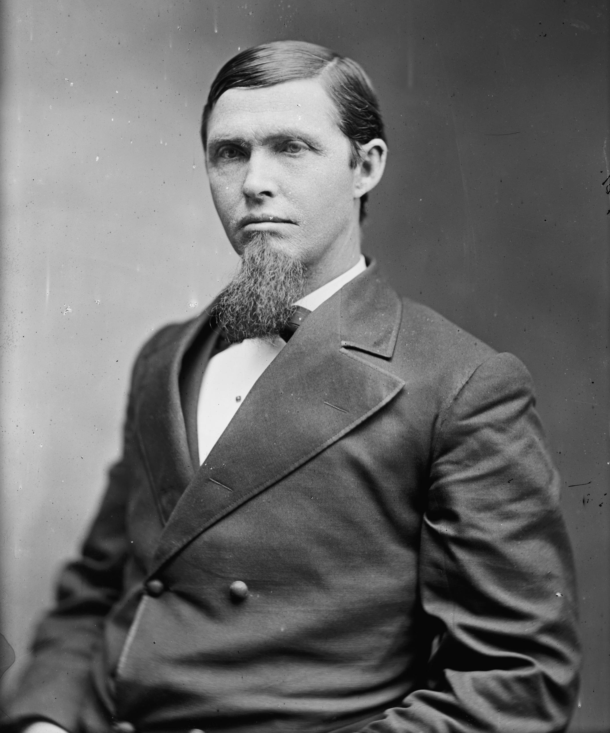 Preston B. Plumb. Library of Congress description: "Plumb, Senator of Kansas".